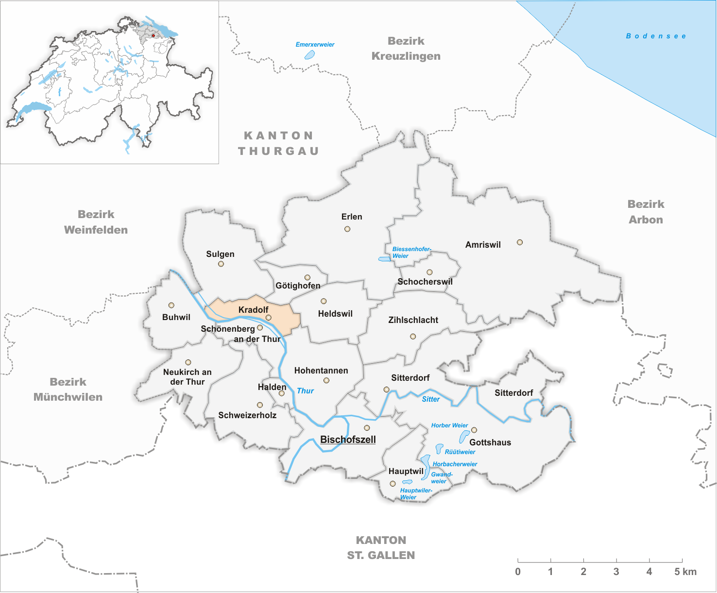 Municipality Kradolf